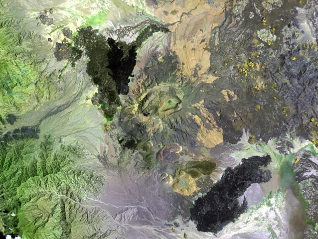 Ma Alalta volcano (center), also known as Pierre Pruvost, is an 1815-m-high stratovolcano located well to the west of the Danakil depression. A large trachytic and rhyolitic stratovolcano at the center of the Ma Alalta complex contains nested oval-shaped summit calderas, 6 km and 4 km wide in the long direction. Young basaltic lava flows were erupted on the NW, SE, and eastern flanks of the volcano, and young pantelleritic obsidian domes and lava flows were erupted on the volcano's southern flank.